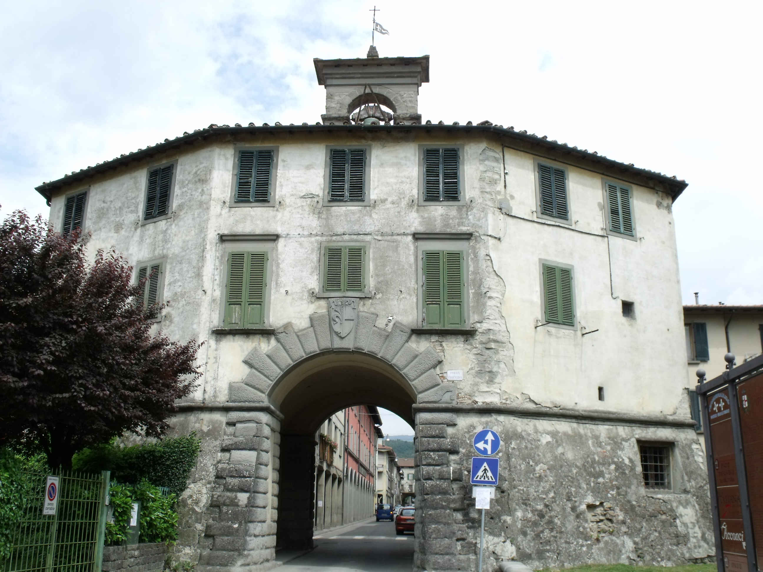 City Gate Porta Fiorentina in Firenzuola, Province of Florence, Tuscany, Italy